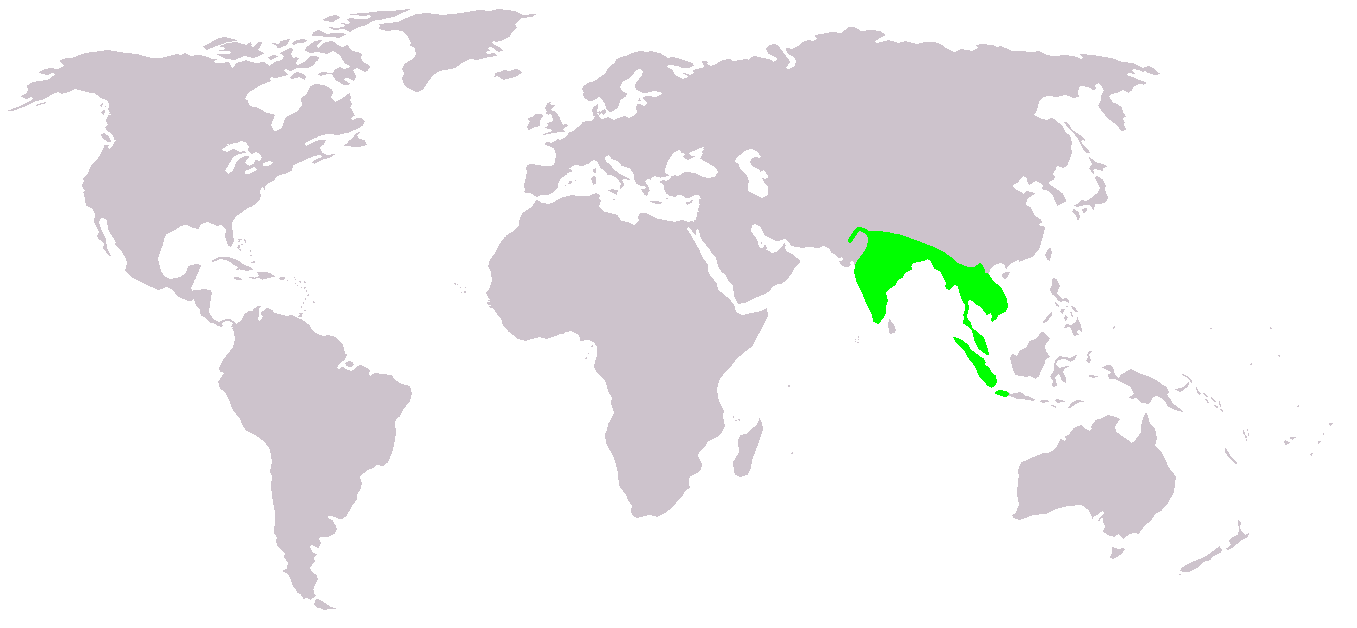 Distribution map of Metopidius indicus by L. Shyamal